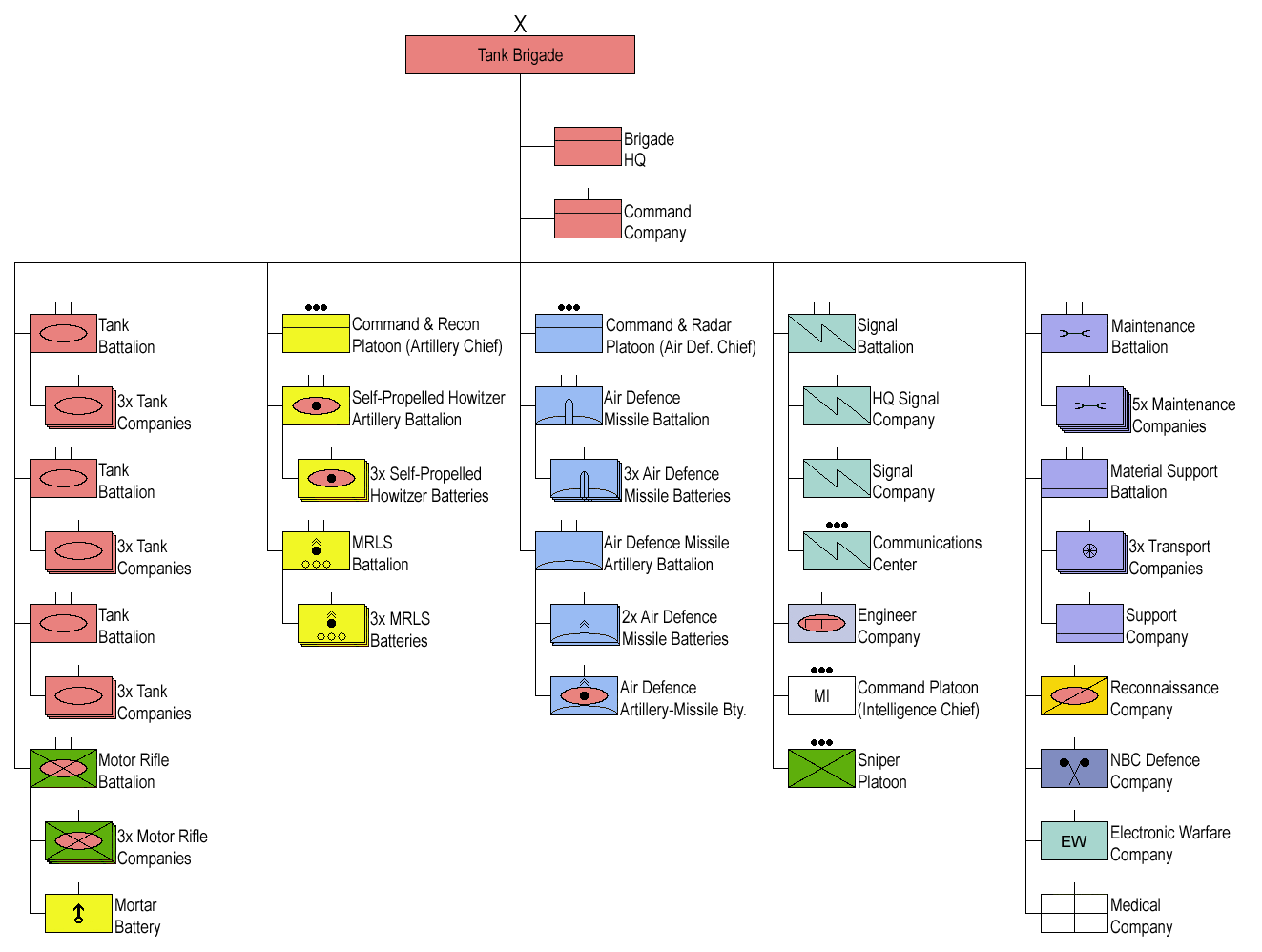 Russian Ground Forces Tank Brigade Standardized Structure 2009